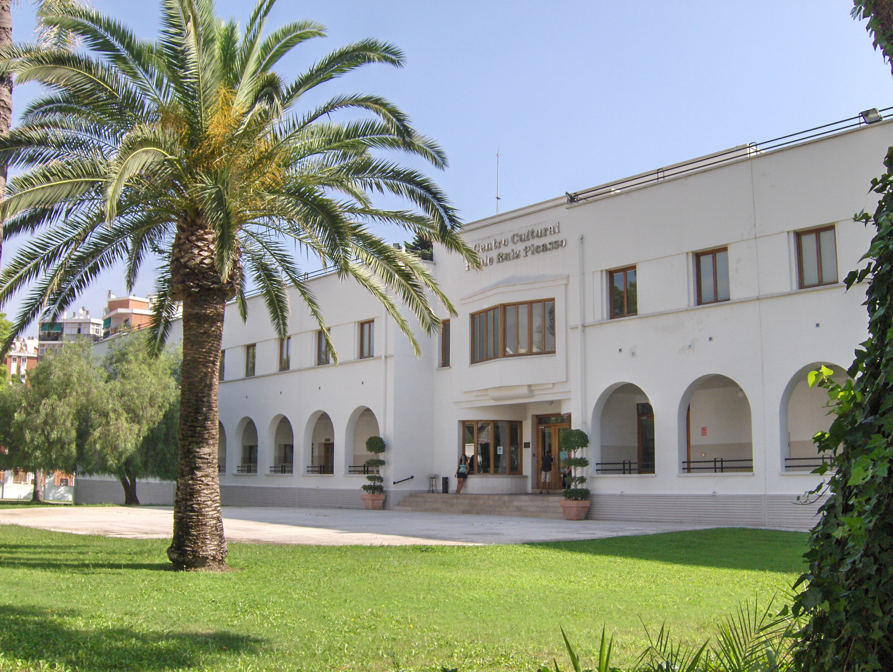 Centro Cultural Pablo Ruiz Picasso, former Colegio de Huérfanos Ferroviarios, Torremolinos, Spain. Built in 1935.